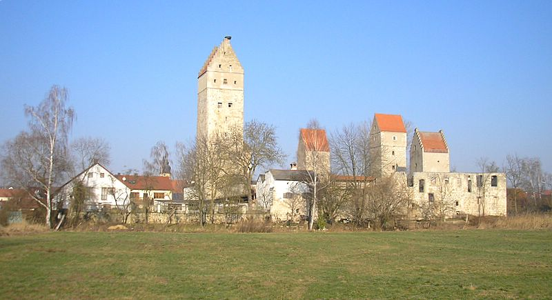 Nassenfels castle (Markt Nassenfels, Landkreis Eichstätt, Upper Bavaria, Germany). Total view